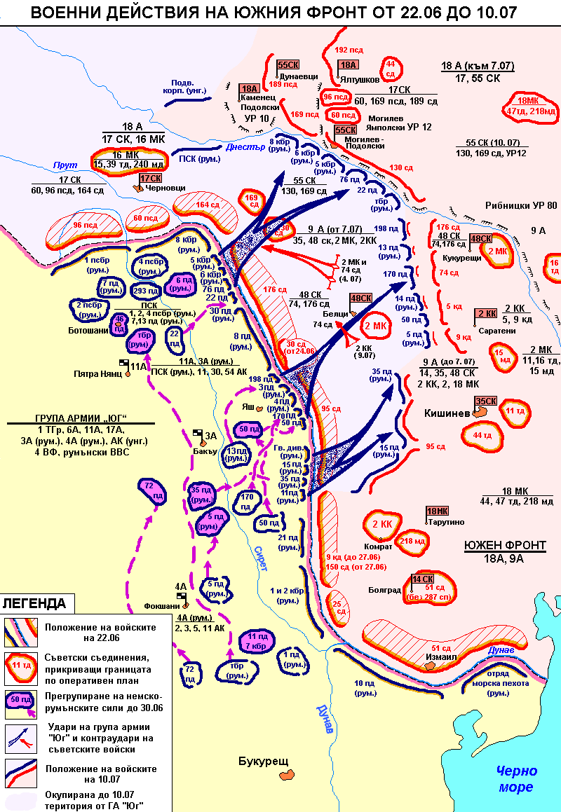 Southern front (Soviet Union) - 22.06 - 10.07.1941